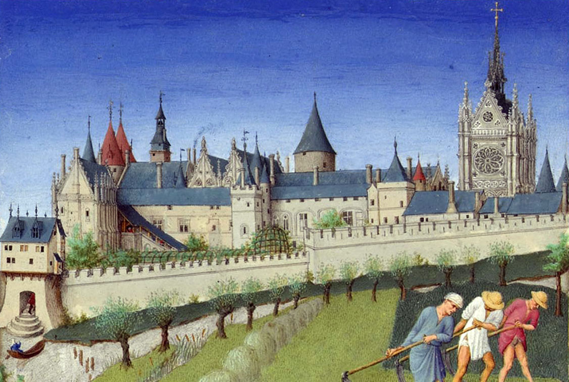 detail from the month of June, haymaking, in the Très Riches Heures du Duc de Berry An illuminated manuscript, Netherlandish. A devotional book of hours.